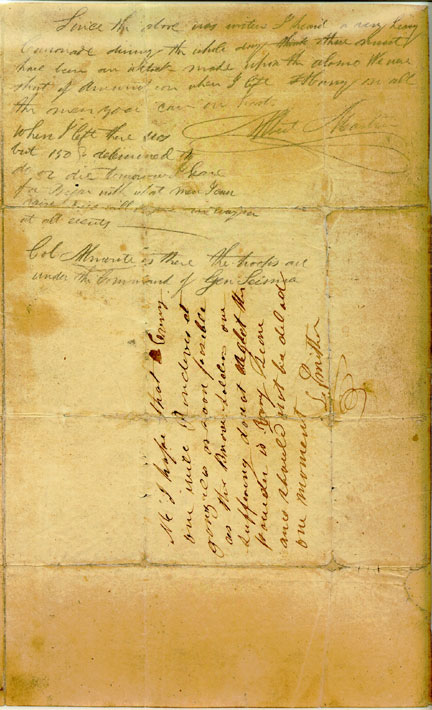 This is an image of the postscripts added to the back of William Barret Travis's letter, To the People of Texas & All Americans in the World, during the battle of the Alamo. All of the authors of this work died in the 19th century; the letter itself was first published in 1836.